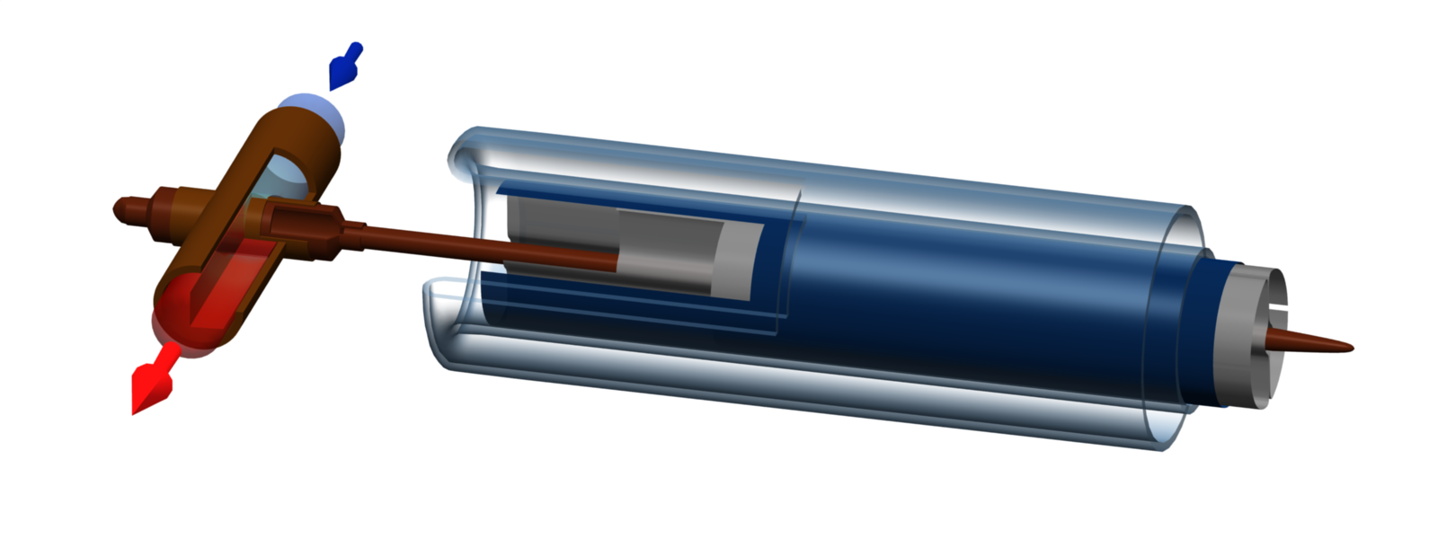 Vacuum solar collector - single tube